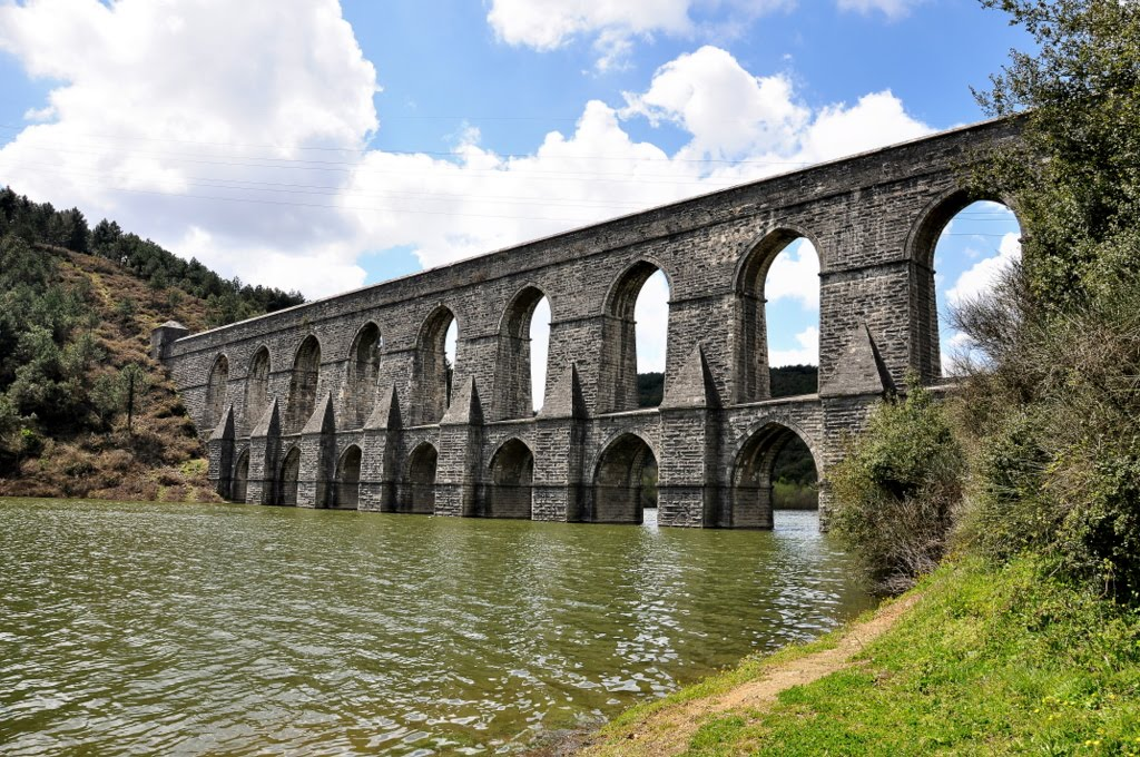 Guzelce_Kemer_Sinan